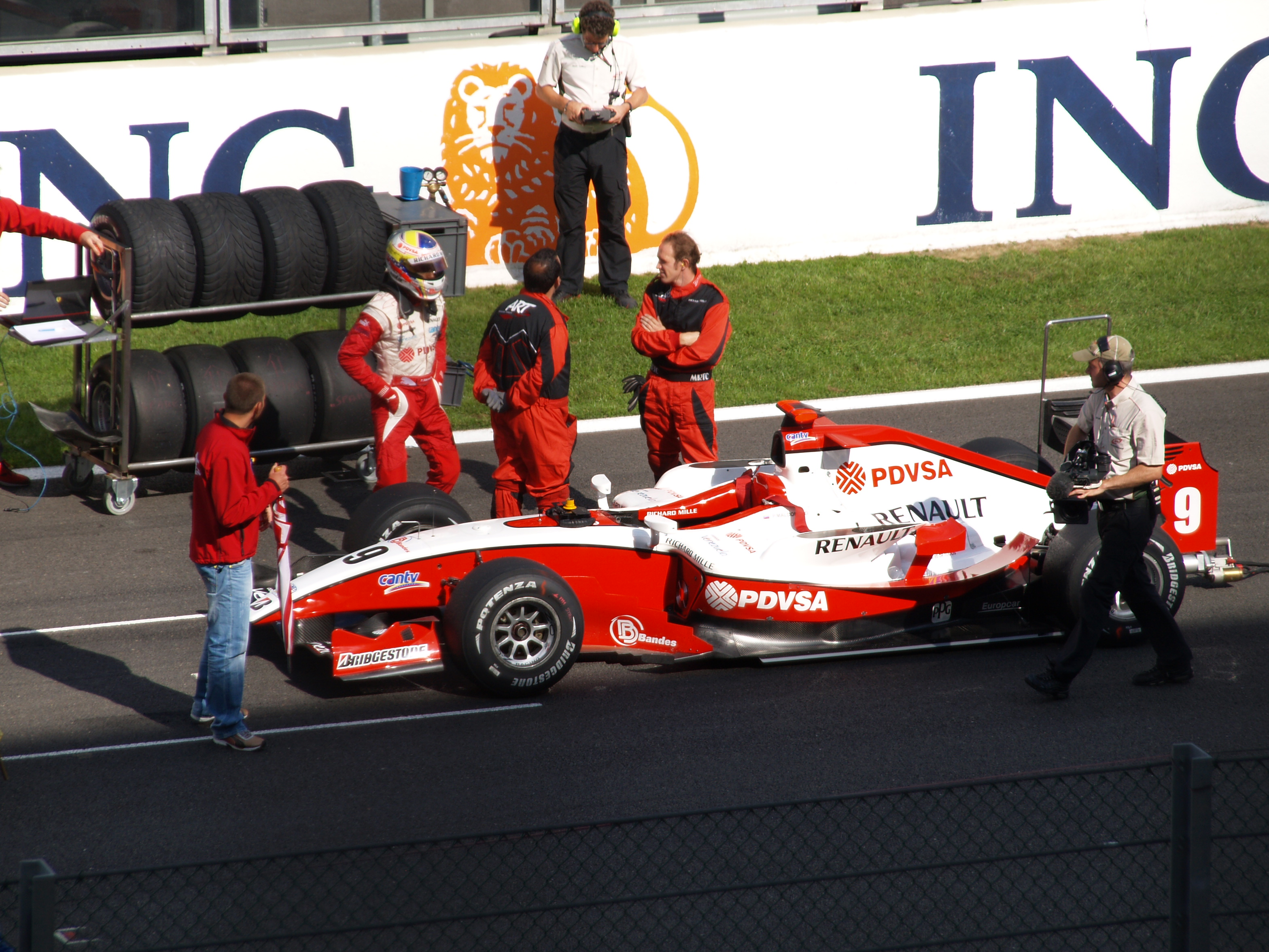 Pastor Maldonado on the grid for the Spa-Francorchamps feature race during the 2009 GP2 Series season.